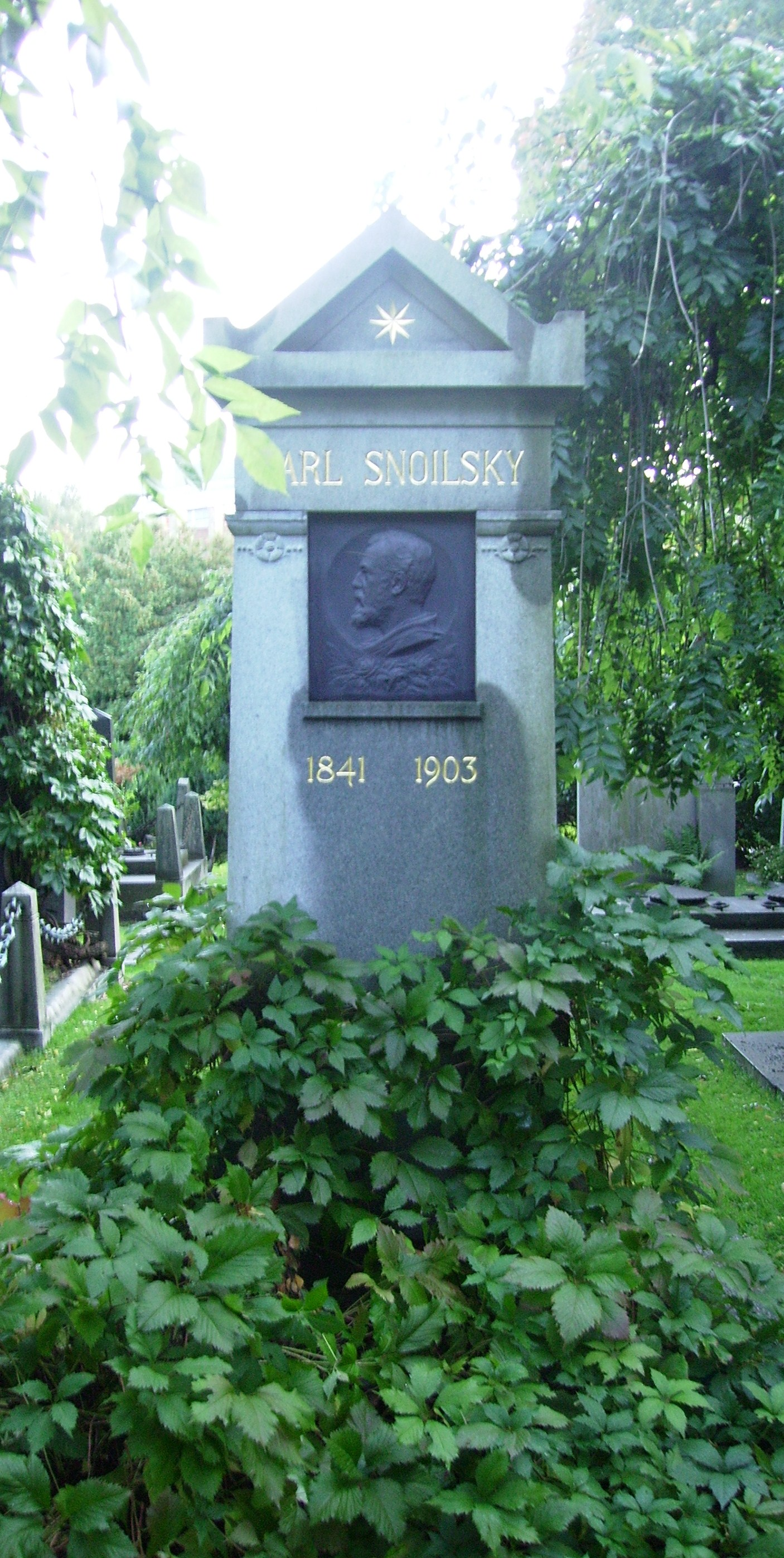 Picture of Carl Snoilsky's grave at Solna kyrkogård